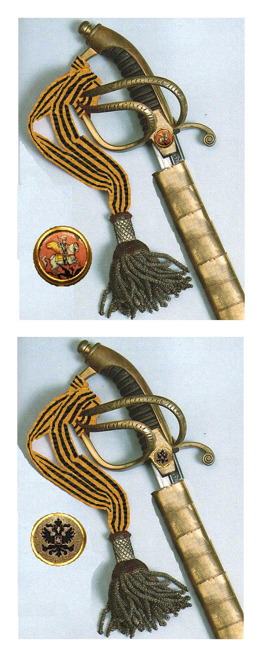 Sword of Honour, portépée of the Order of Sint-George, Russia